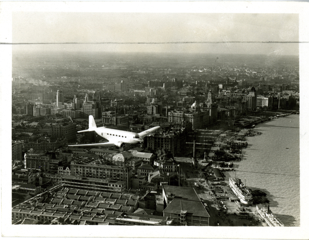 Creator: Sowerby, Arthur de Carle 1885-1954 Subject: China National Aviation Corporation Type: Black-and-white photographs Topic: Douglas DC-2 Local number: SIA RU007263 [SIA2008-2870] Summary: On verso: "Compliments of China National Aviation Corporation, 51 Canton Road, Shanghai. Wings over Shanghai" Cite as: RU 7263 - Arthur de Carle Sowerby Papers, 1904-1954 and undated, Smithsonian Institution Archives Place: Shanghai (China) Persistent URL:Link to data base record Repository:Smithsonian Institution Archives View more collections from the Smithsonian Institution.